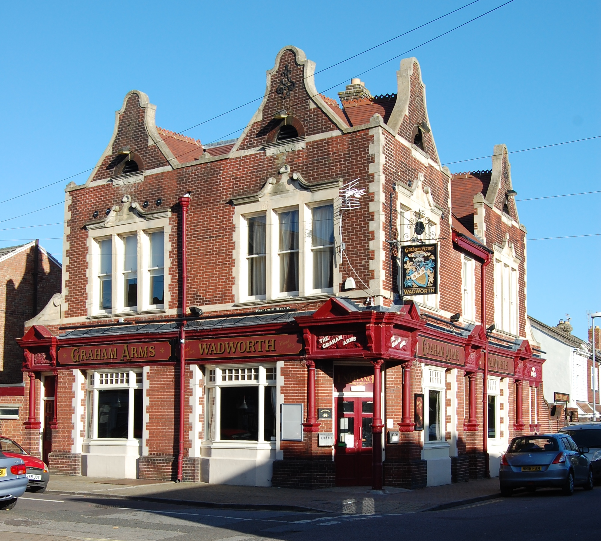 Graham Arms pub, 52 George Street, Buckland, City of Portsmouth, England. An impressive locally listed pub opposite St Wilfrid's Mission Church, designed in 1900 by locally prolific architect A.E. Cogswell.